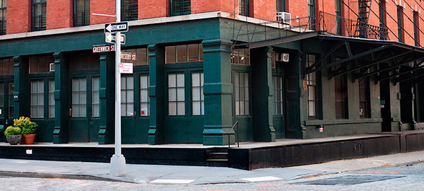 Art Projects International, New York. Corner of Greenwich Street and Vestry Street.